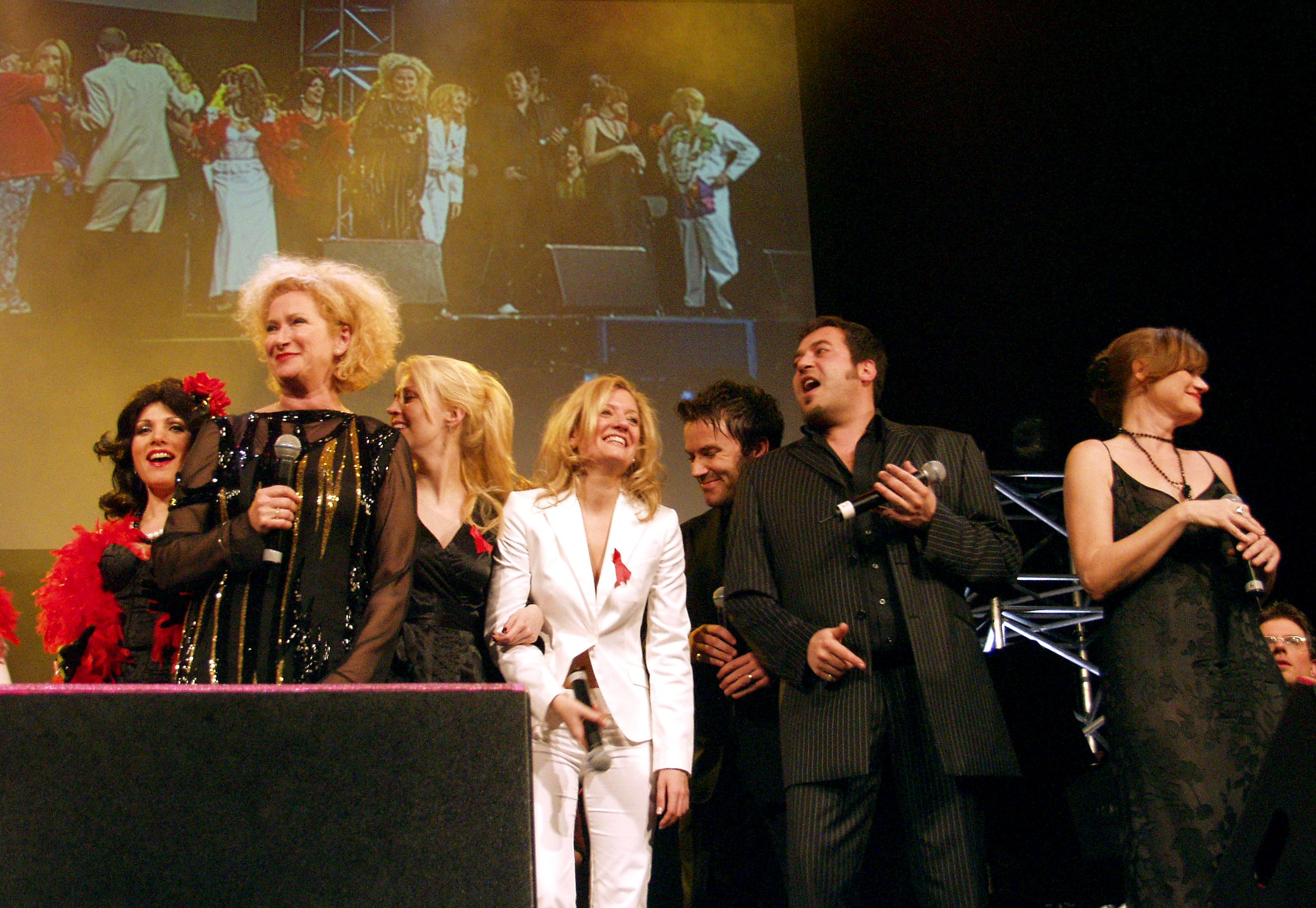 Birgit Schrowange, Gaby Decker, Alexa Phazer, Juliette Schoppmann, Uwe Kröger, Laith Al-Deen, Pe Werner perform on the charity concert "Cover me" at E-Werk, Cologne, Germany.